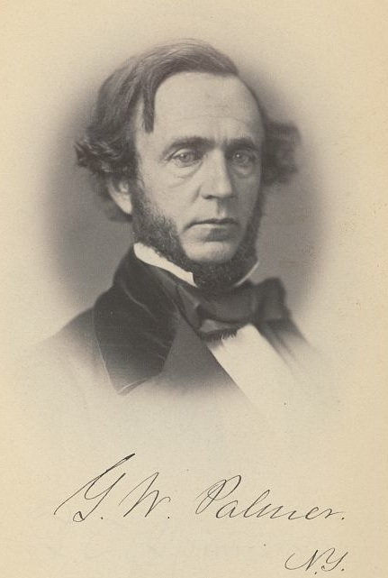 Rep Geo W Palmer of NY